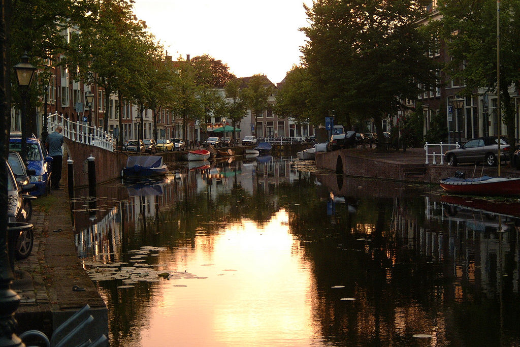 Rapenburg (canal), Leiden, the Netherlands